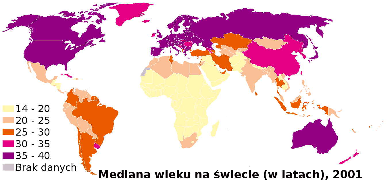 In the Spanish version, this map was created by User:Mortadelo2005. In the English version, this map was created by User:Joeyramoney. However, where did the data come from? English version of Image:Promedio edad mundo.png.